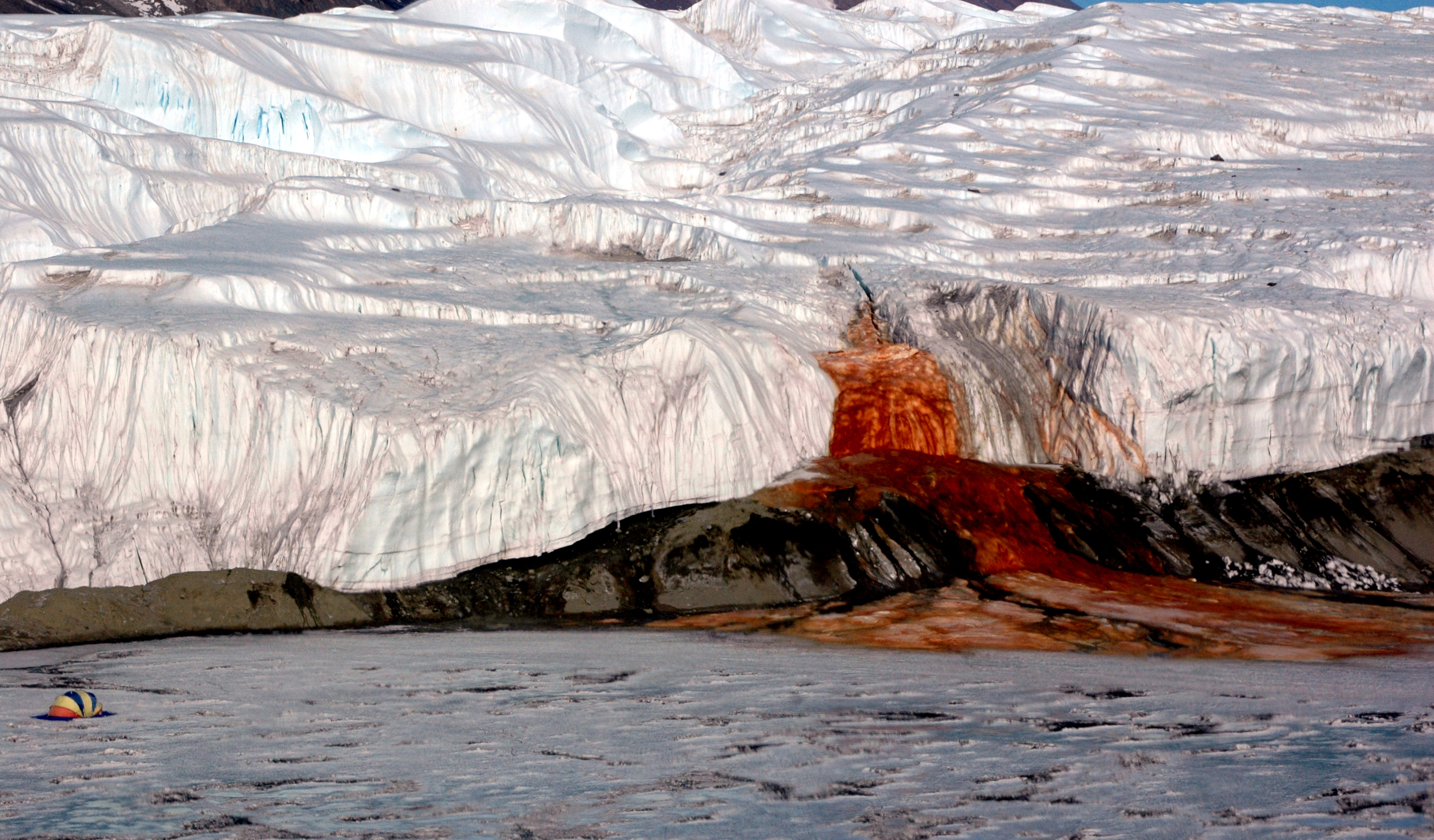 Blood Falls seeps from the end of the Taylor Glacier into Lake Bonney. The tent at left provides a sense of scale for just how big the phenomenon is. Scientists believe a buried saltwater reservoir is partly responsible for the discoloration, which is a form of reduced iron.